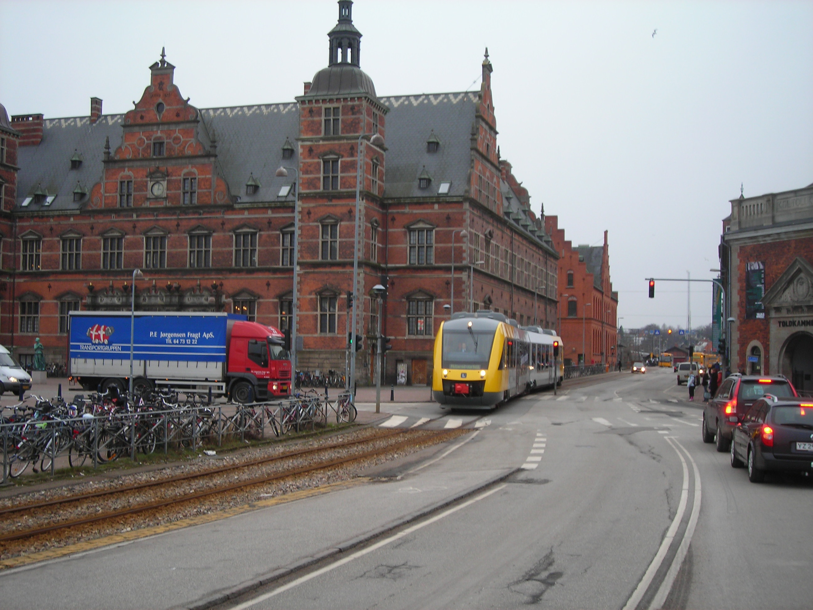 Hornbækbanen at Helsingør railway station, Denmark